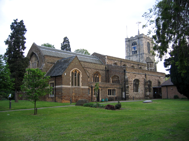 St Andrew's parish church, Biggleswade, Bedfordshire, seen from the northeast